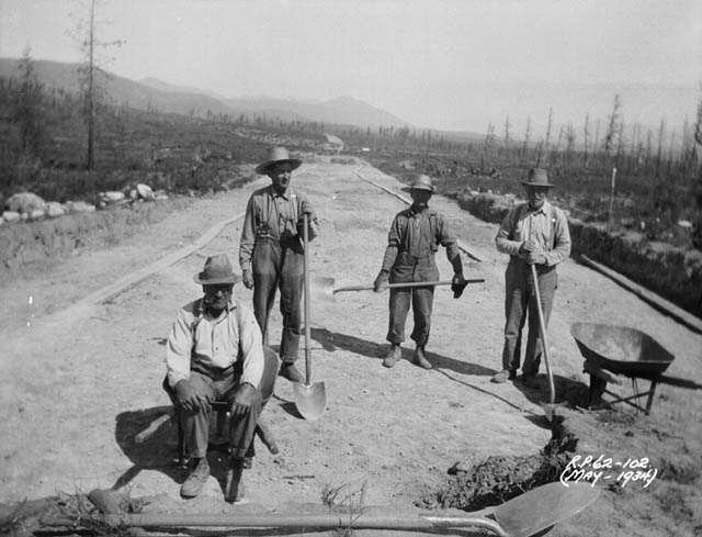 (Relief Projects - No. 62). Road construction at Kimberly-Wasa, British Columbia. The federal government established Relief Projects in 1933 during the height of the Great Depression for unemployed single men. Although they were not compulsory, they were often the only alternative for many ment at a time when social assistance was unavailable. Work camps provided food and meagre accommodations but the work was unpaid, a situation that would lead to protests and demonstrations in 1934. These workers improved infrastructure of Canada by building roads, airfields, parks, and restoring historical ramparts